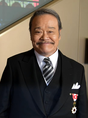 Toshiyuki Nishida, President of Japan Actors Union, attended a presentation ceremony of the Order of the Rising Sun, Gold Rays with Rosette at the National Theatre of Japan in Chiyoda Ward, Tōkyō Metropolis on May 11, 2018.